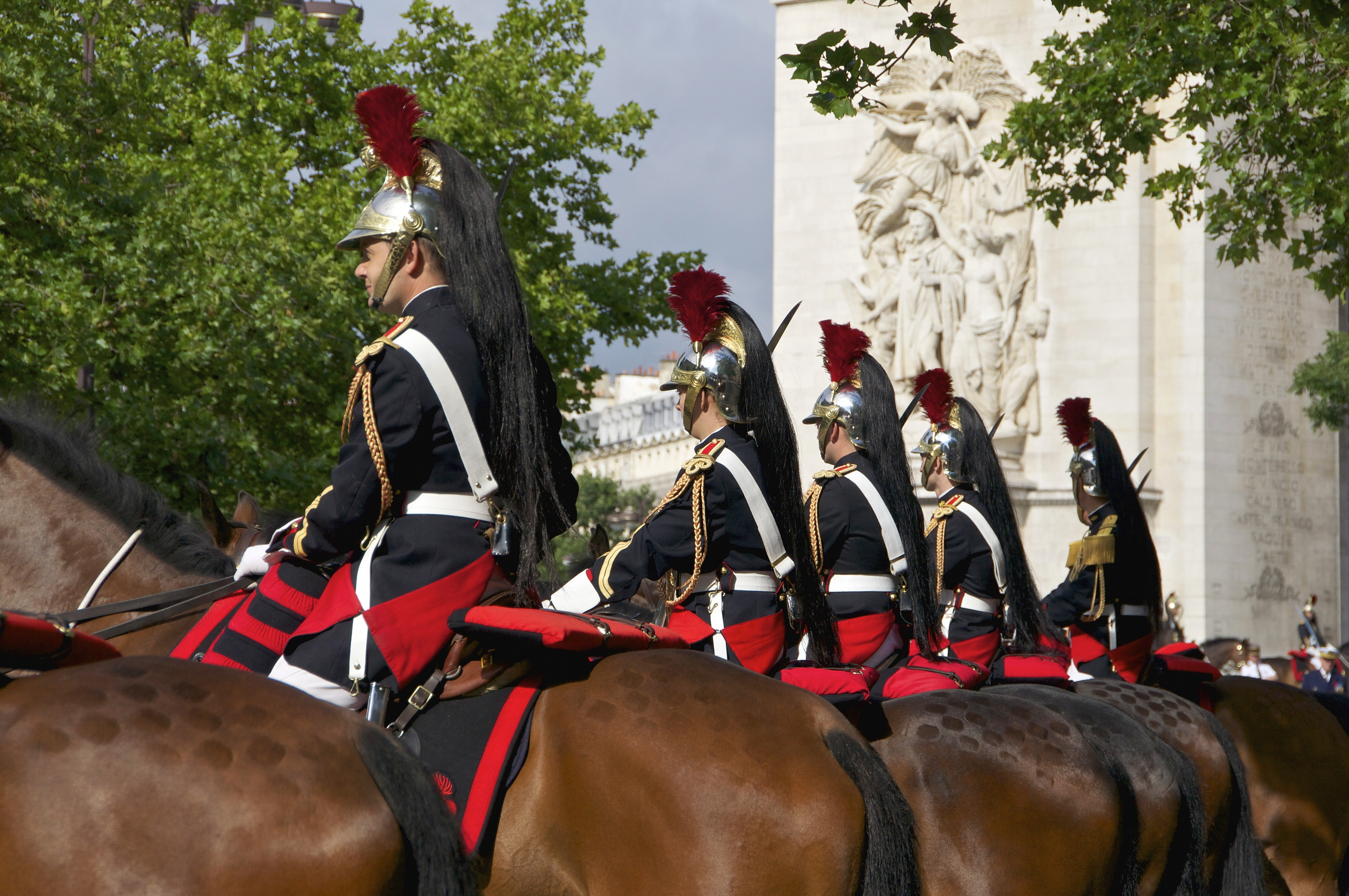 Elements of the cavalry regiment of the french "Garde Républicaine". In background, detail of the Arc-de-Triomphe de l'Etoile, Charle-de-Gaulle square, Paris, France.